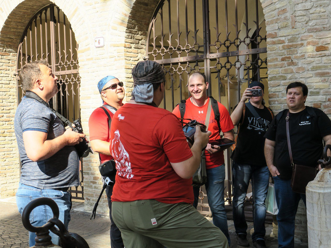 Oleg Maltsev and some members of the Expedirionary Corps